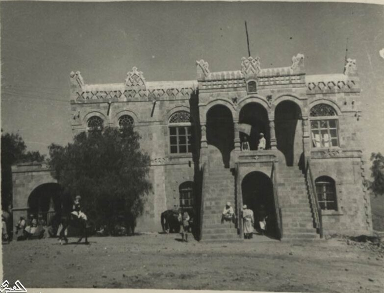 Ministry of Foreign Affairs building in Ta'izz in 1952